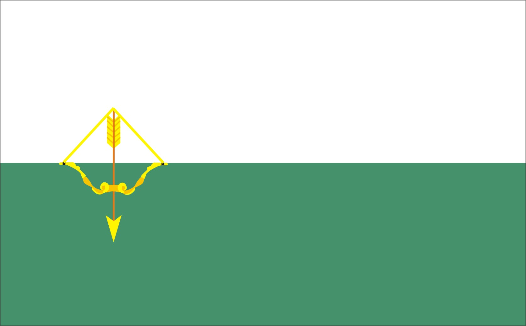 Flag of the city of Poltava, Ukraine.